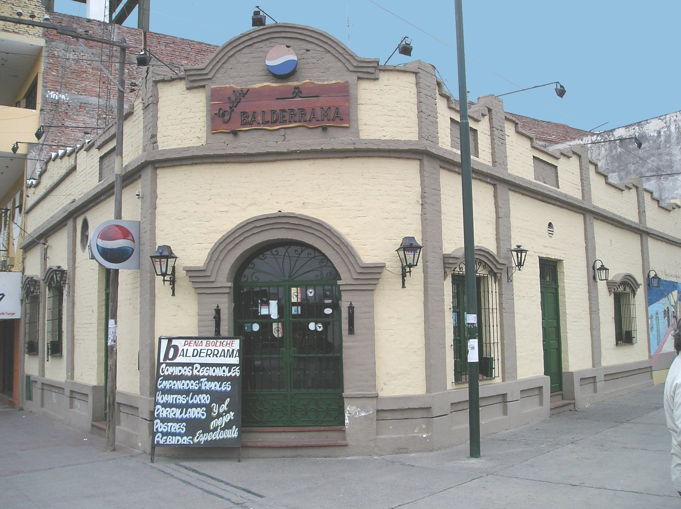 Boliche Balderrama. Salta. Argentina. This food shop inspired the famous song "Balderrama", composed by Cuchi Leguizamón and Manuel J. Castilla.